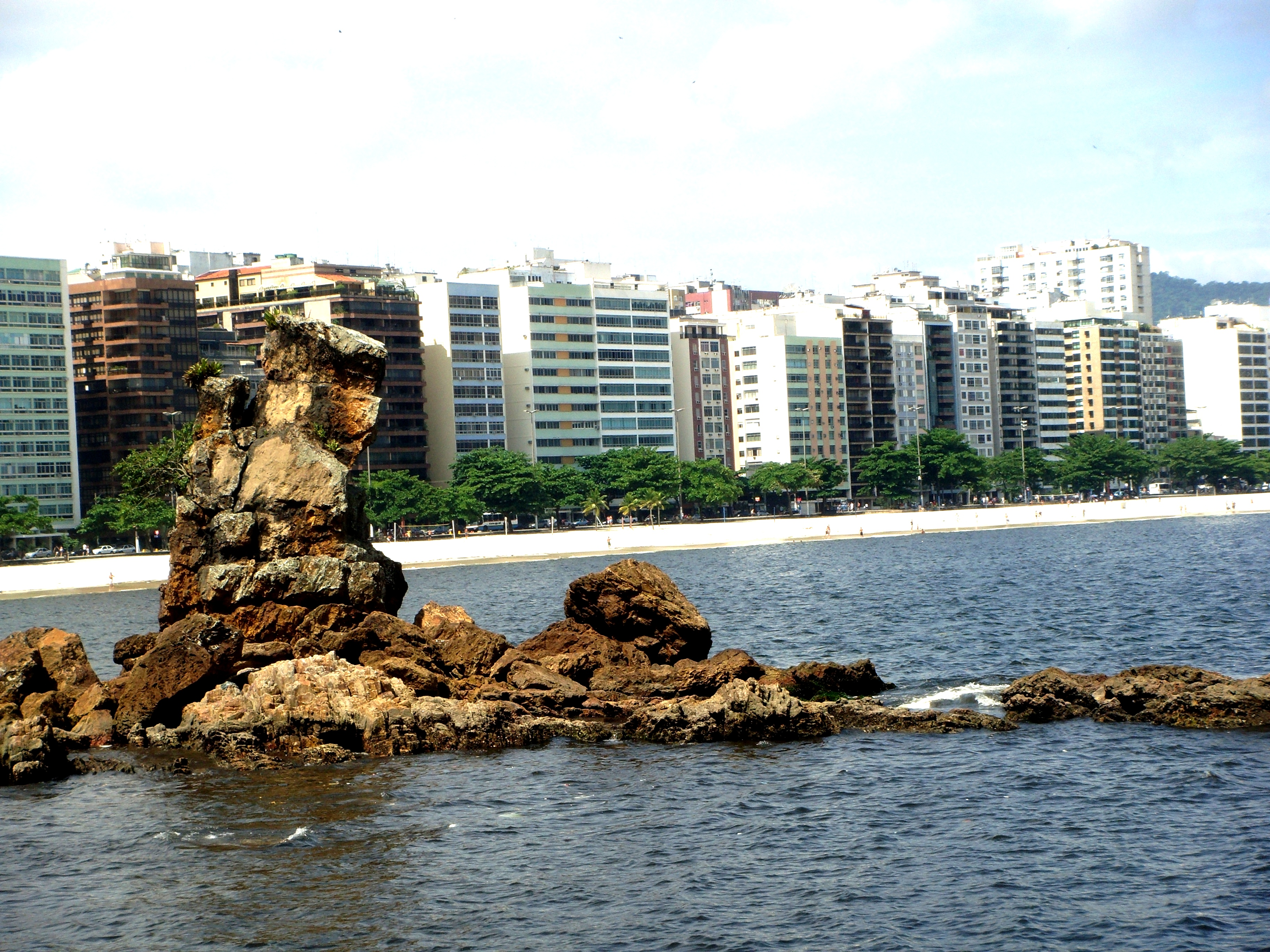 Icaraí, bairro de Niterói